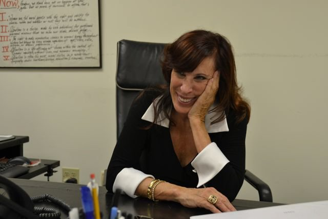 Merle Hoffman, photo by Vanessa Valenti